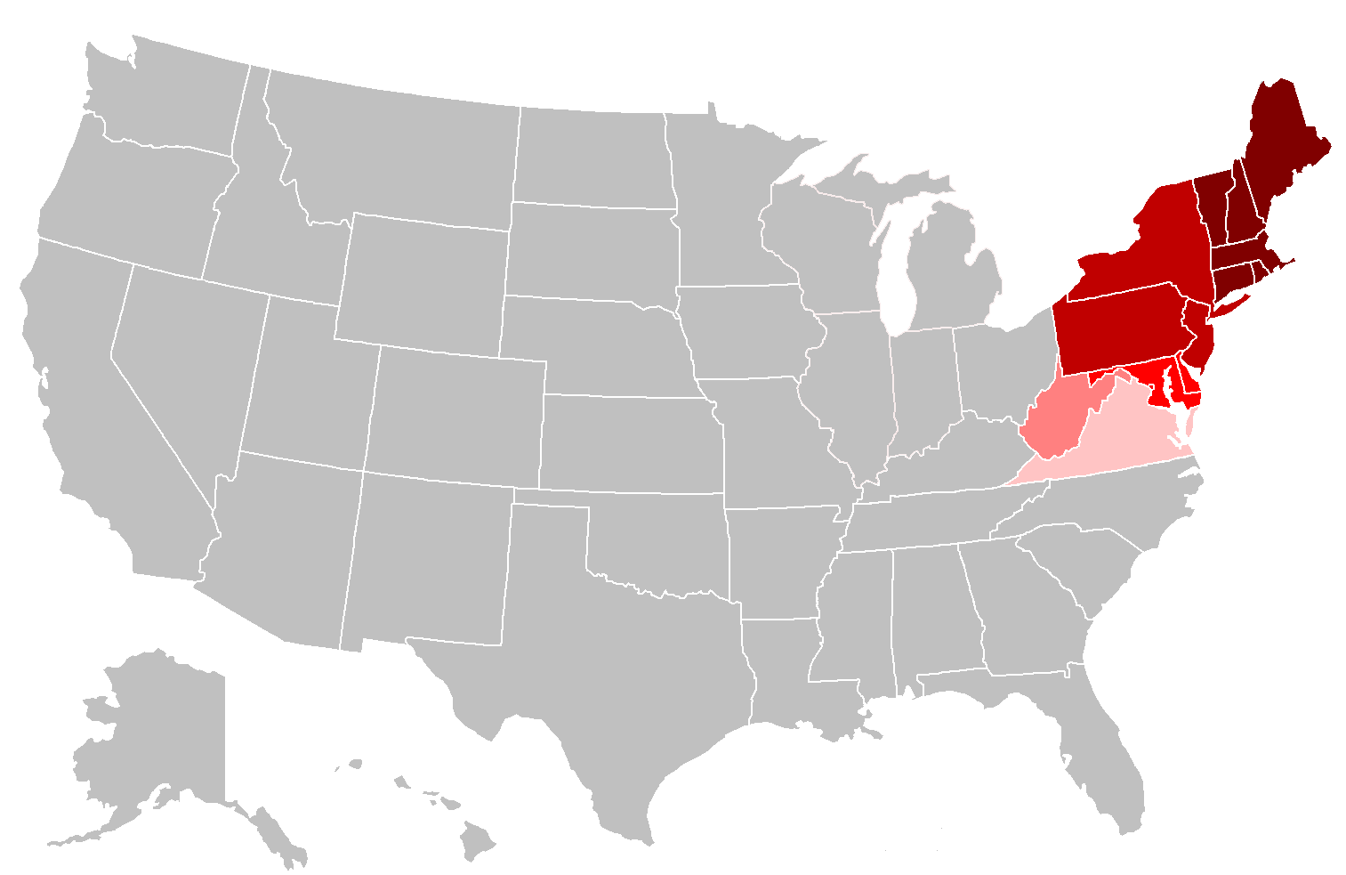 Map of the northeastern United States. The pink areas include states that are cited by fewer reliable sources as being included in the Northeast. The red areas are more frequently cited by reliable sources, and the dark red are the most commonly accepted as being included in the Northeast.